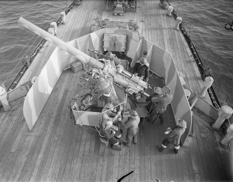 IWM caption : "Looking down on the gun crew at action stations at the forward 4 inch gun on board HMS WESTON during a south bound convoy." Comment : The gun is a QF 4 inch Mk V. HMS Weston was a Shoreham class sloop.